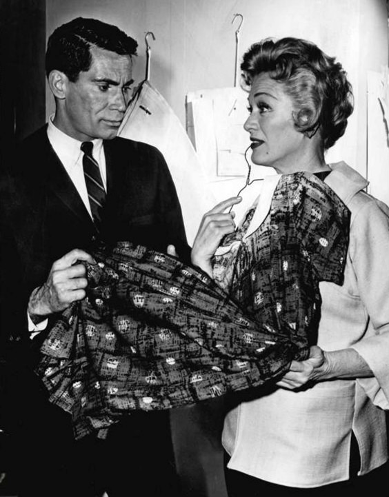 Photo of Anthony George as Don Corley and Eve Arden in the television program Checkmate.